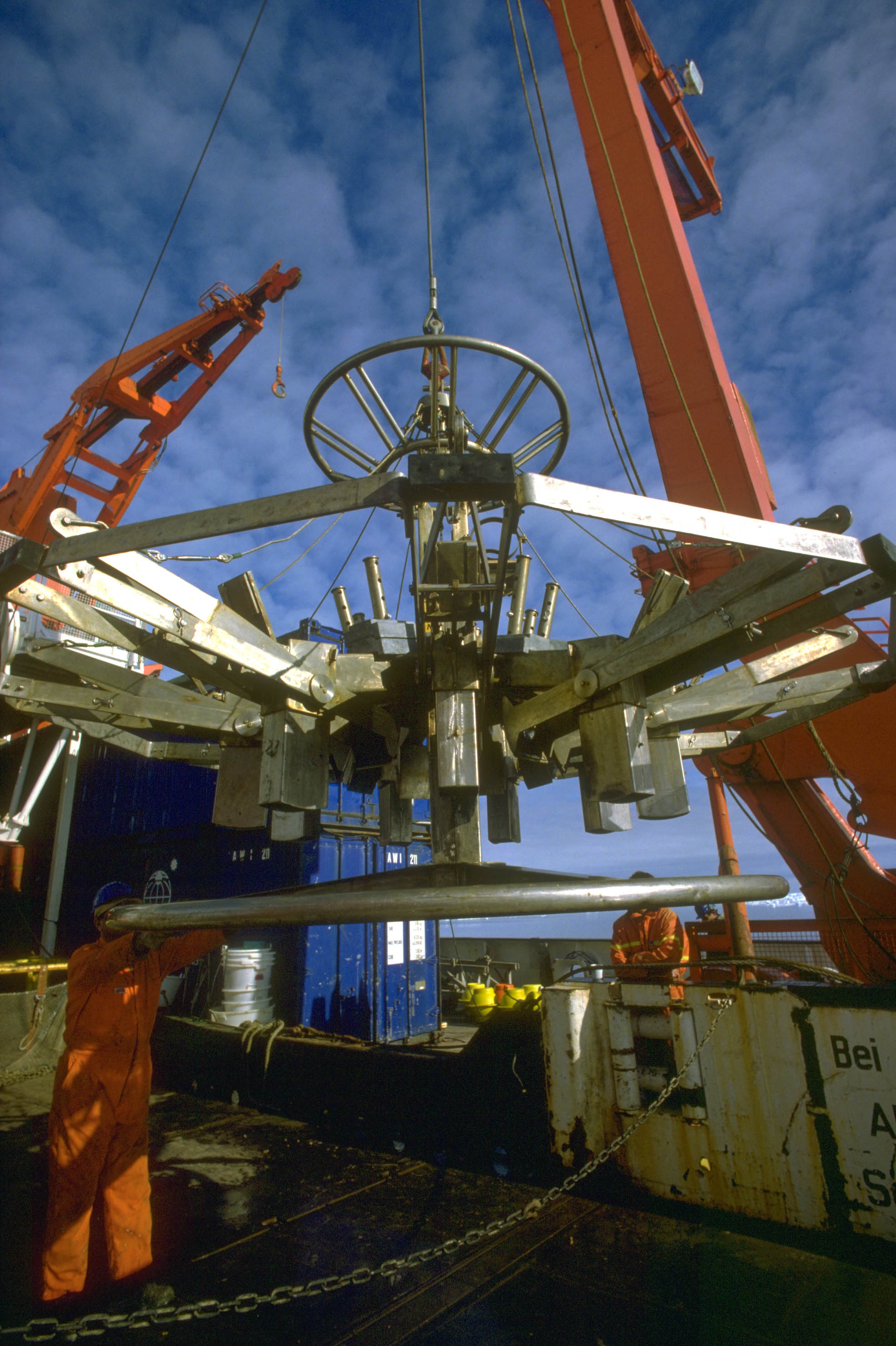 Multi box corer (spade corer) used to take nine undisturbed sediment samples from the ocean floor surface at the same time; developed at the Alfred Wegener Institute for comparative investigations of benthos in biology. The image shows the deployment of the corer off Spitzbergen from the research vessel Polarstern.